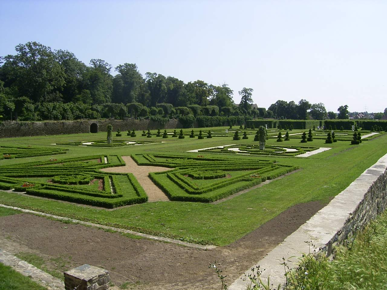 the baroque garden in castle Hundisburg